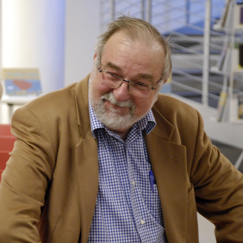 Roberto Innocenti, italian illustrator, during a vernissage (introduction to "What Would You Like To Be?", a book by Arianna Papini – Civic Library of Scandicci, Florence, Italy)